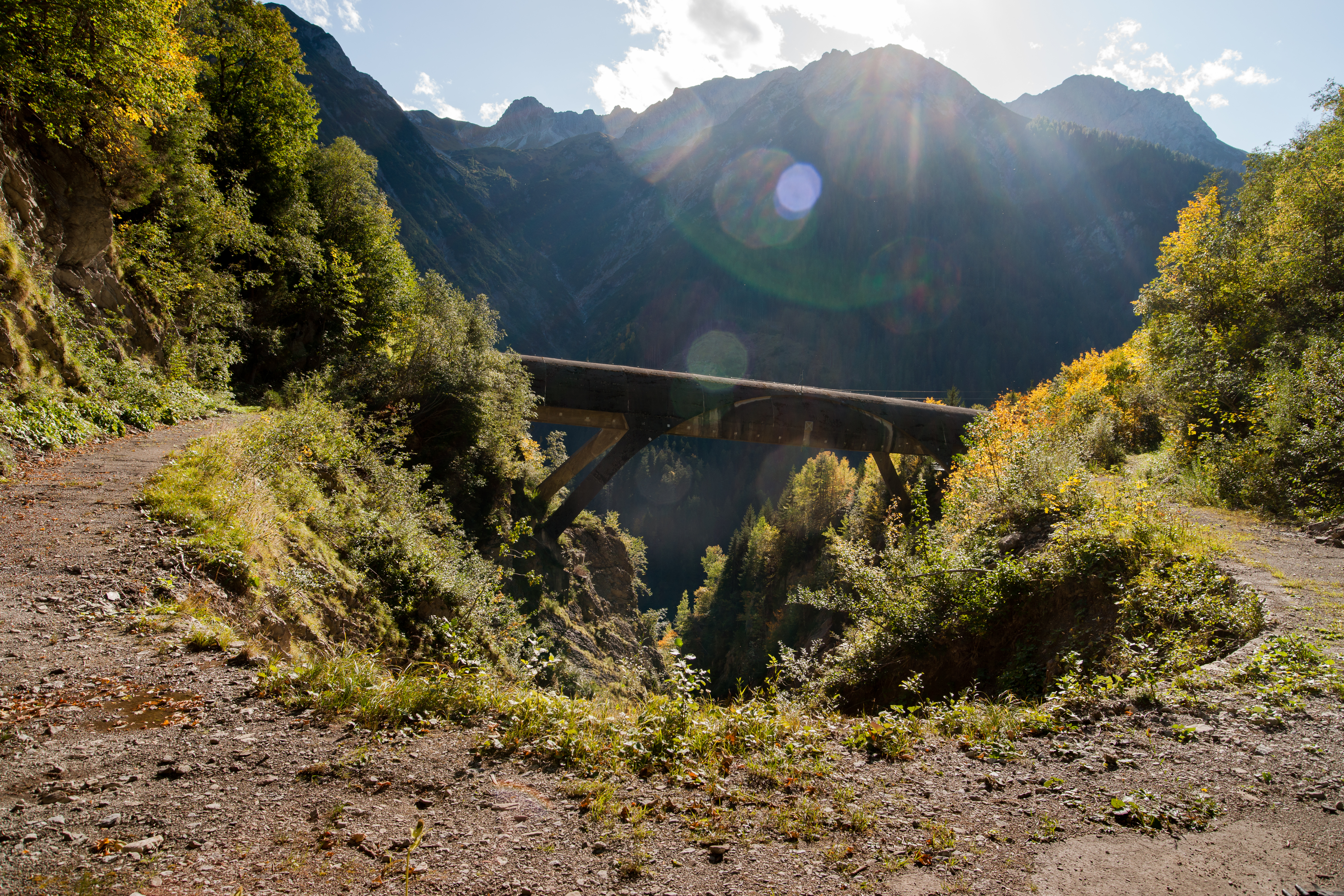 Tunnelbridge in Tyrolean Bschlaber Valley, Austria